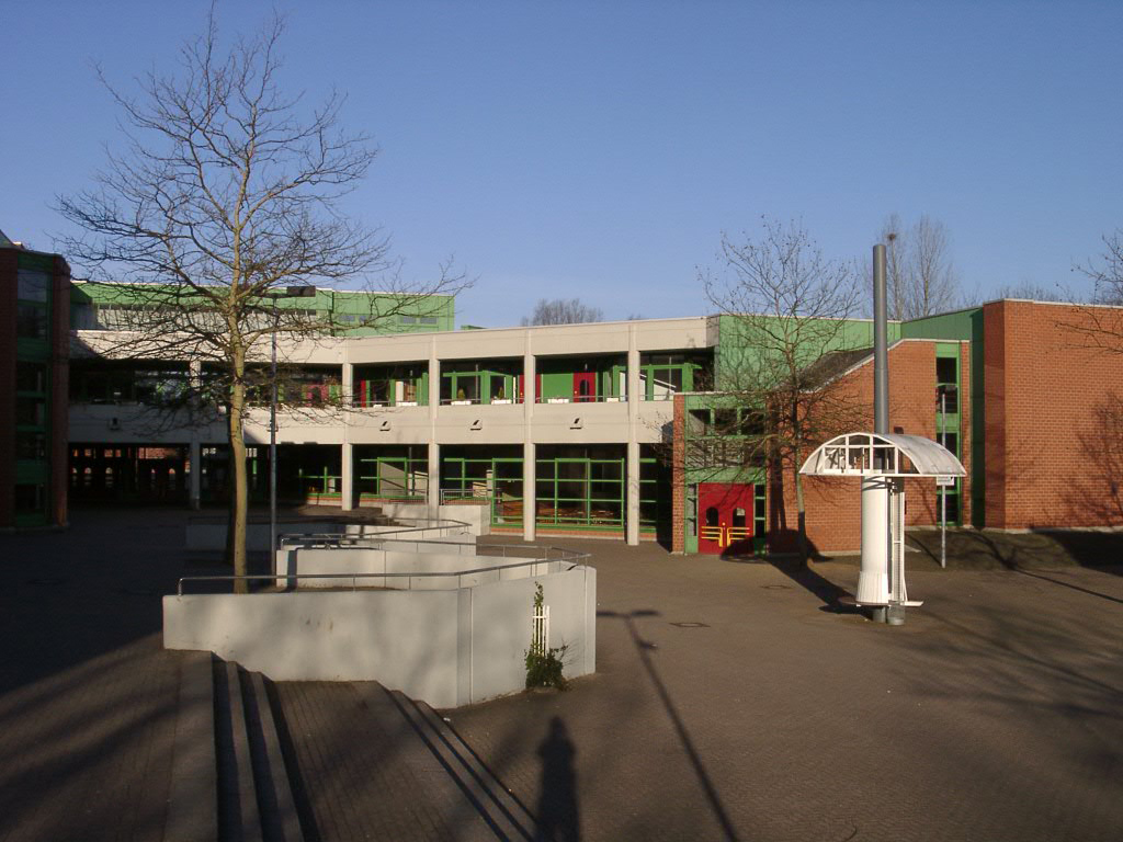 Schloß-Gymnasium seit 1980